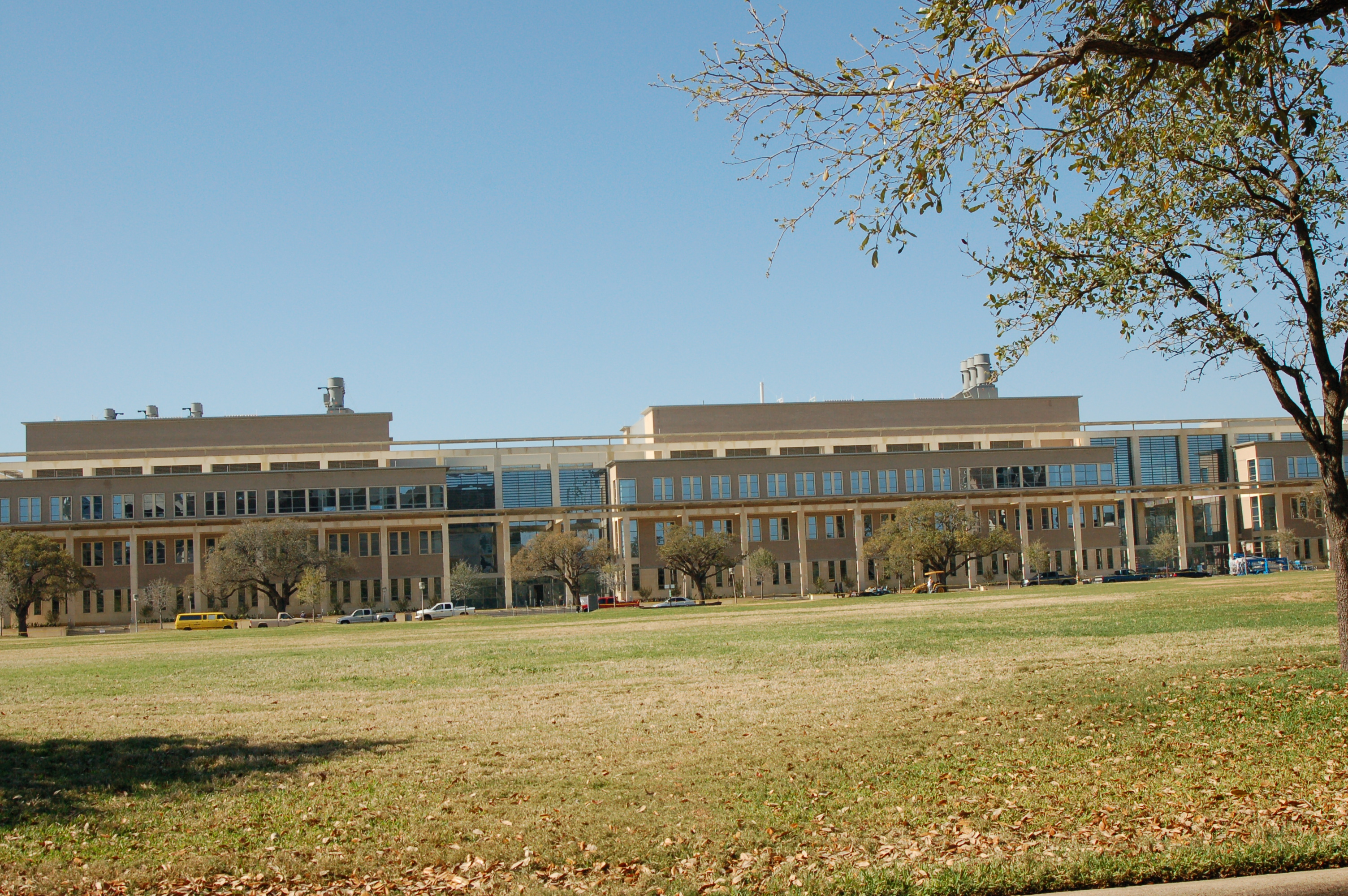 Interdisciplinary Life Sciences Building at Texas A&M University (Under Construction) across from Simpson Drill Field